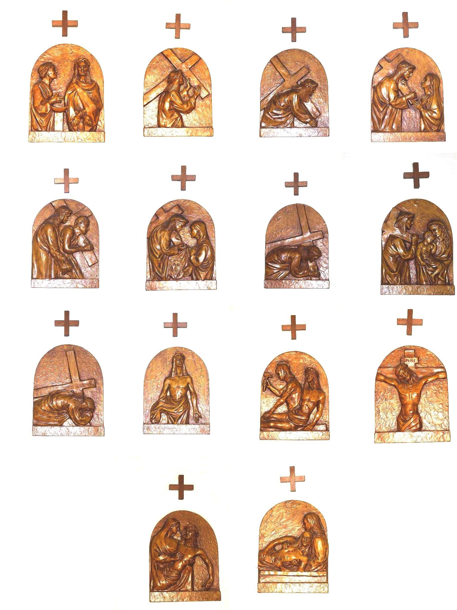 Way of the Cross, St. Maria (Sehnde)